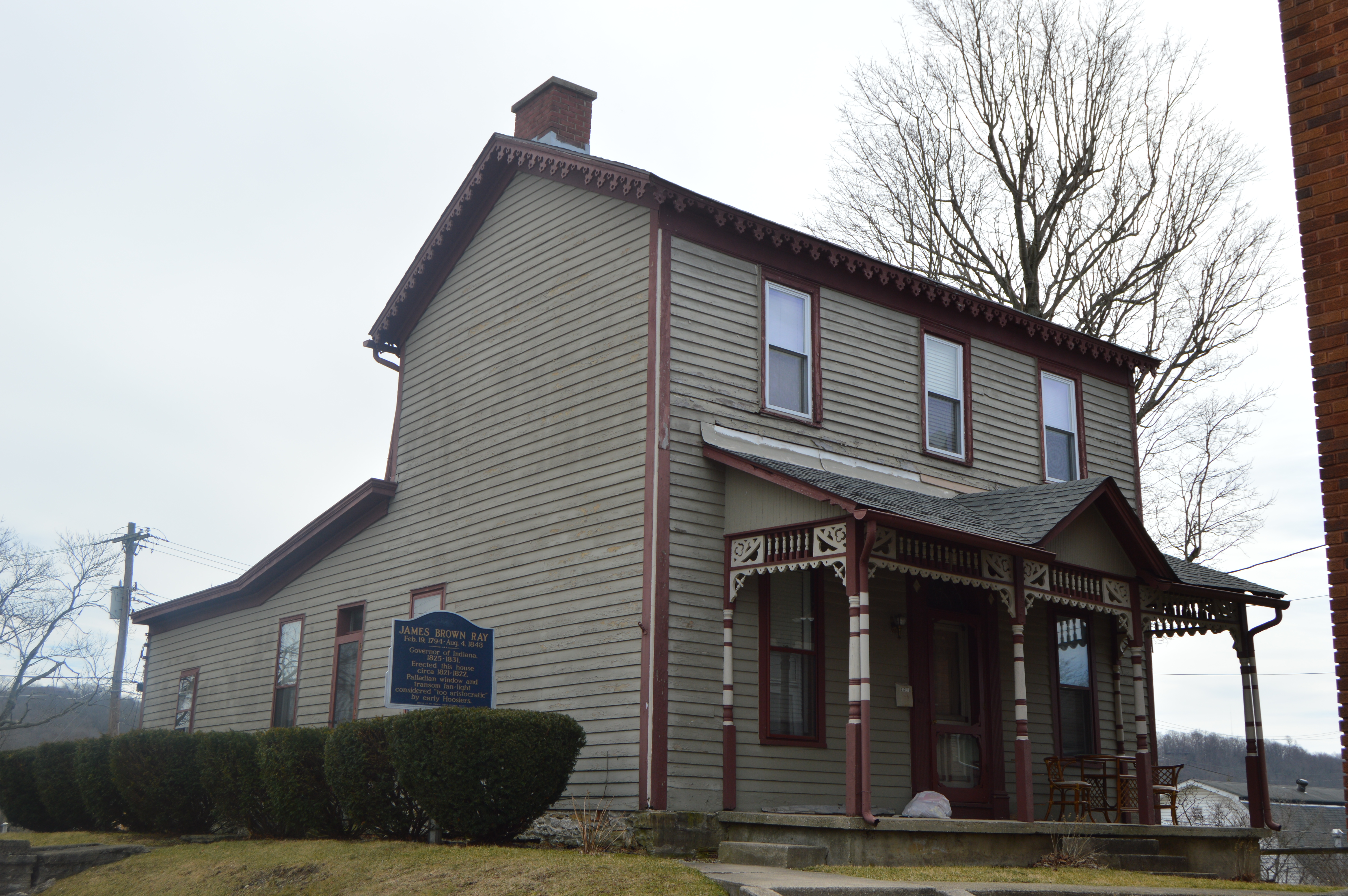 Northern side and front of the James Brown Ray House, located at 212 E. Tenth Street in Brookville, Indiana, United States. Built in 1818 for future Indiana governor James B. Ray, it is part of the Brookville Historic District, a historic district that is listed on the National Register of Historic Places.